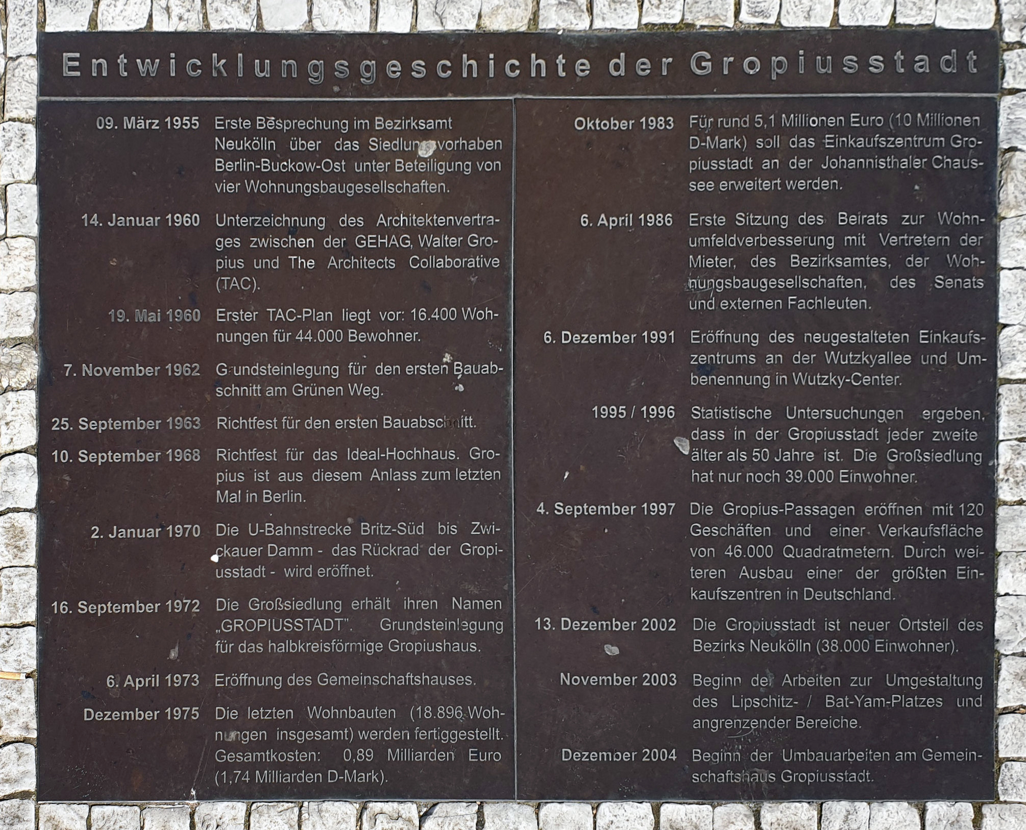 Memorial plaque, Entwicklungsgeschichte der Gropiusstadt, Lipschitzplatz, Berlin-Gropiusstadt, Deutschland